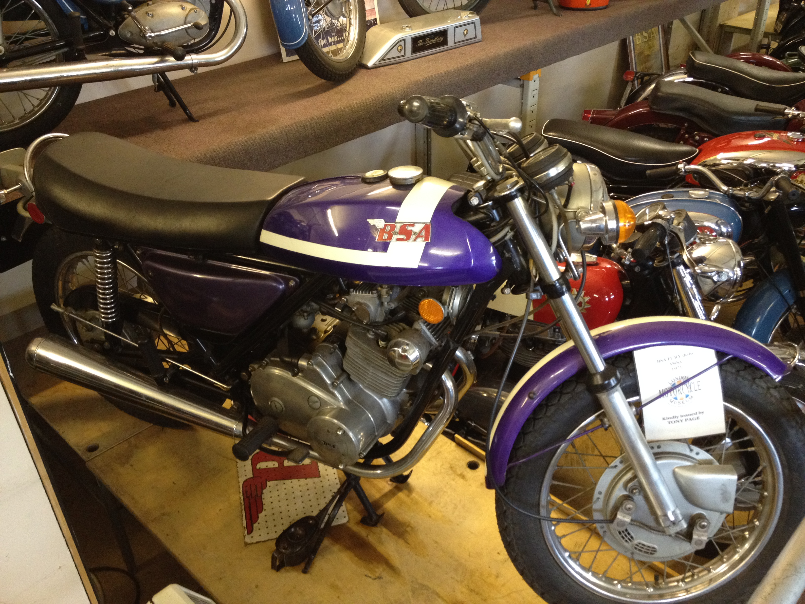 1971 prototype BSA Fury, a double overhead cam twin cylinder 350cc motorcycle, designed by Edward Turner and substantially re-worked for production by Bert Hopwood and Doug Hele. The model was not put into production due to the parent company's financial problems.